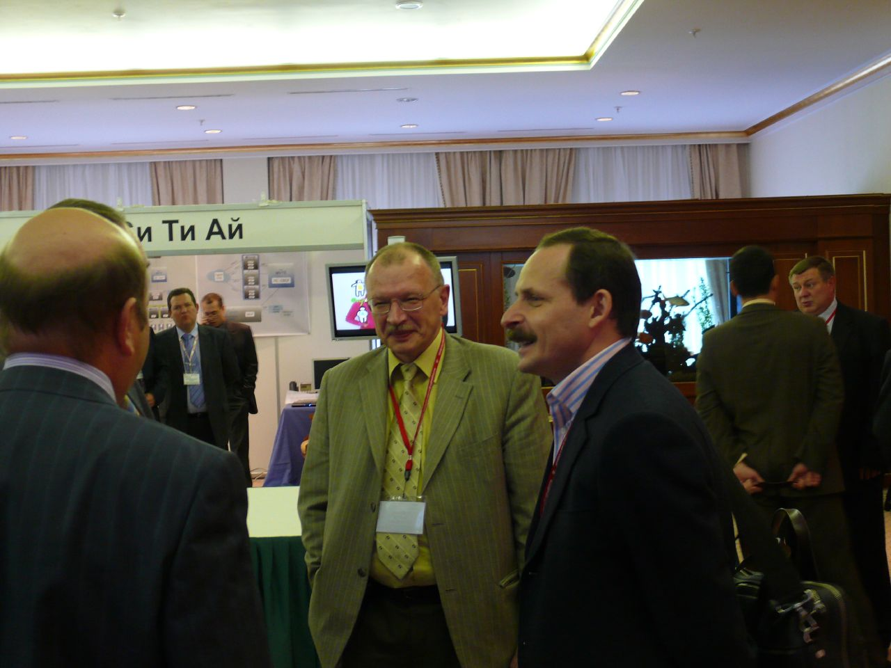 Andrey Romanov (Coordination Center for TLD RU), Arkady Volozh